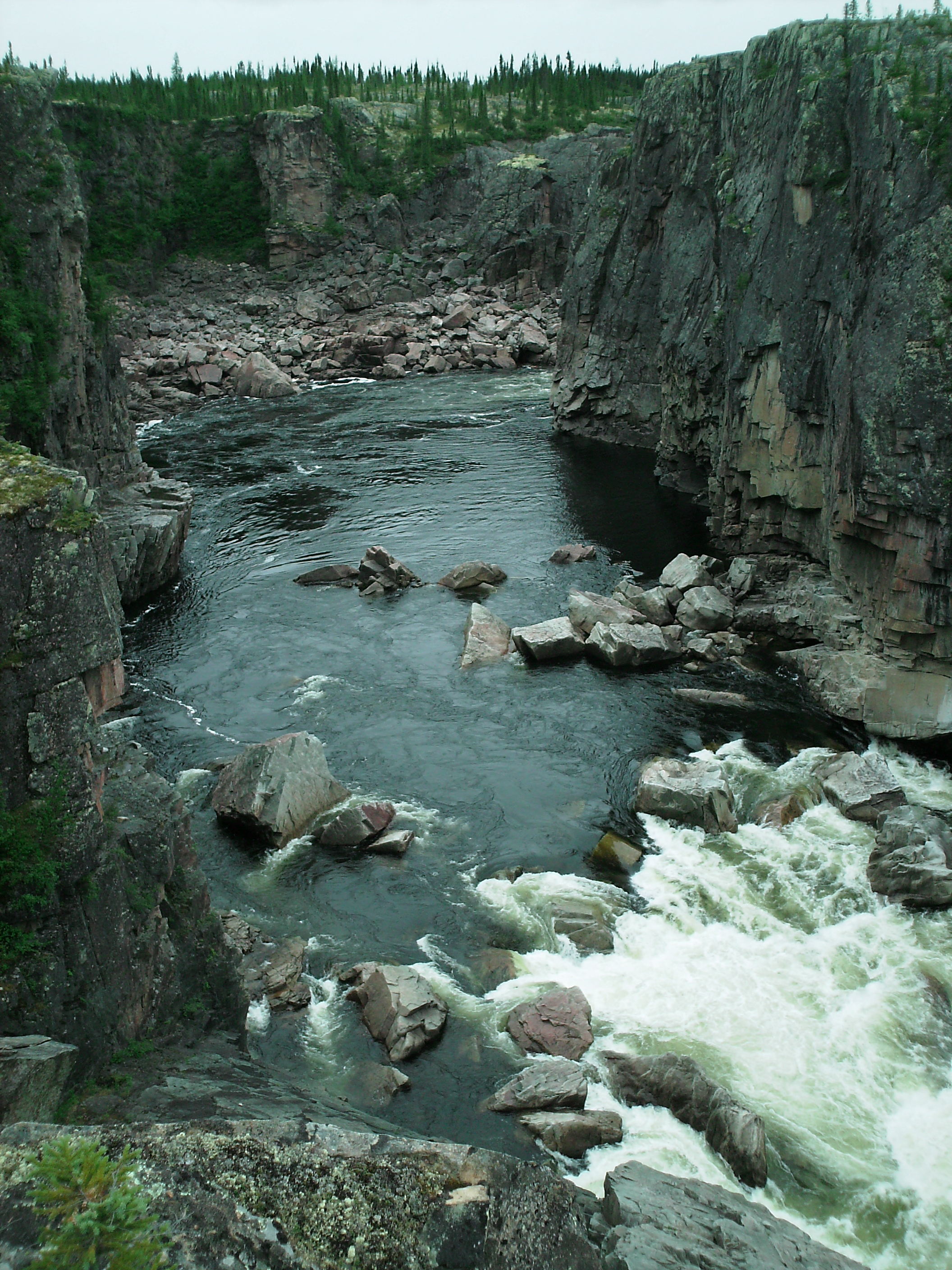 Eaton Canyon, Caniapiscau River